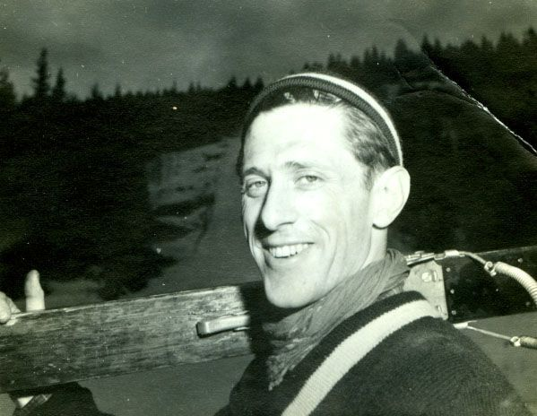 Petter Hugsted at Nels Nelsen Hill in Revelstoke, British Columbia, Canada